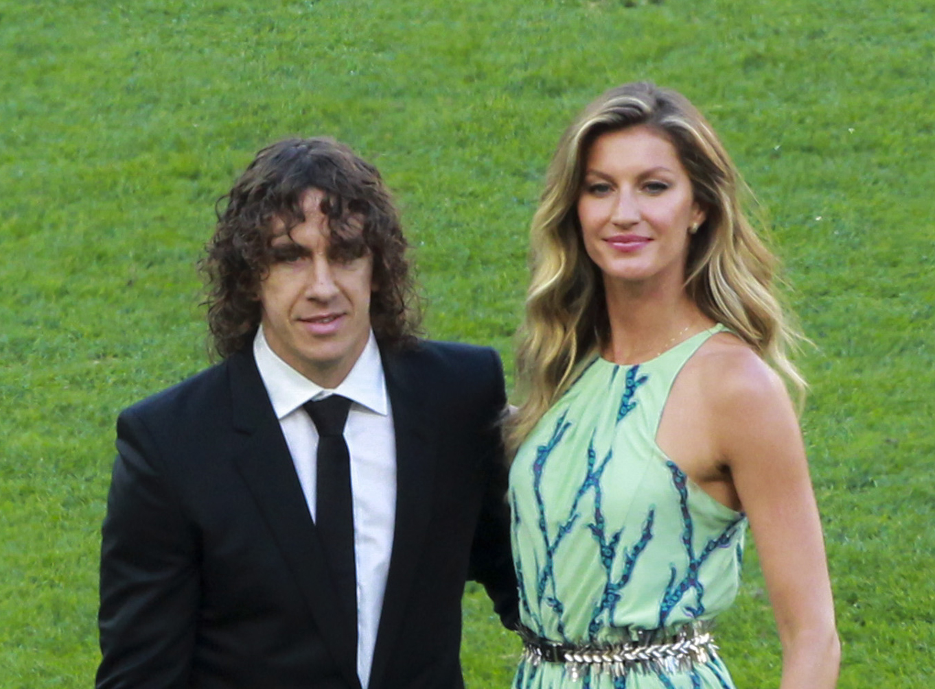 The final match of World Cup 2014 between Germany and Argentina 2014-07-13